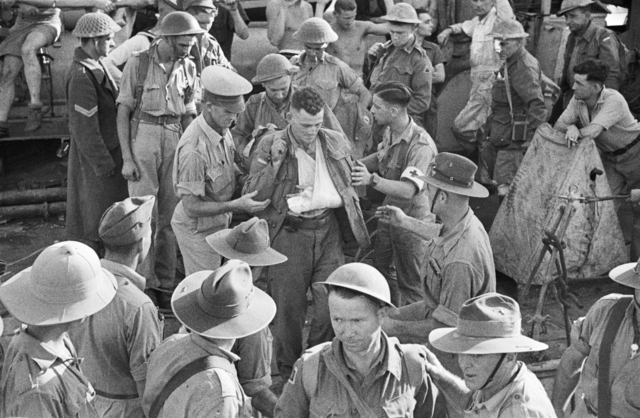 Soldiers from the Australian 6th Division arrive in Alexandria after being evacuated from Crete, June 1941